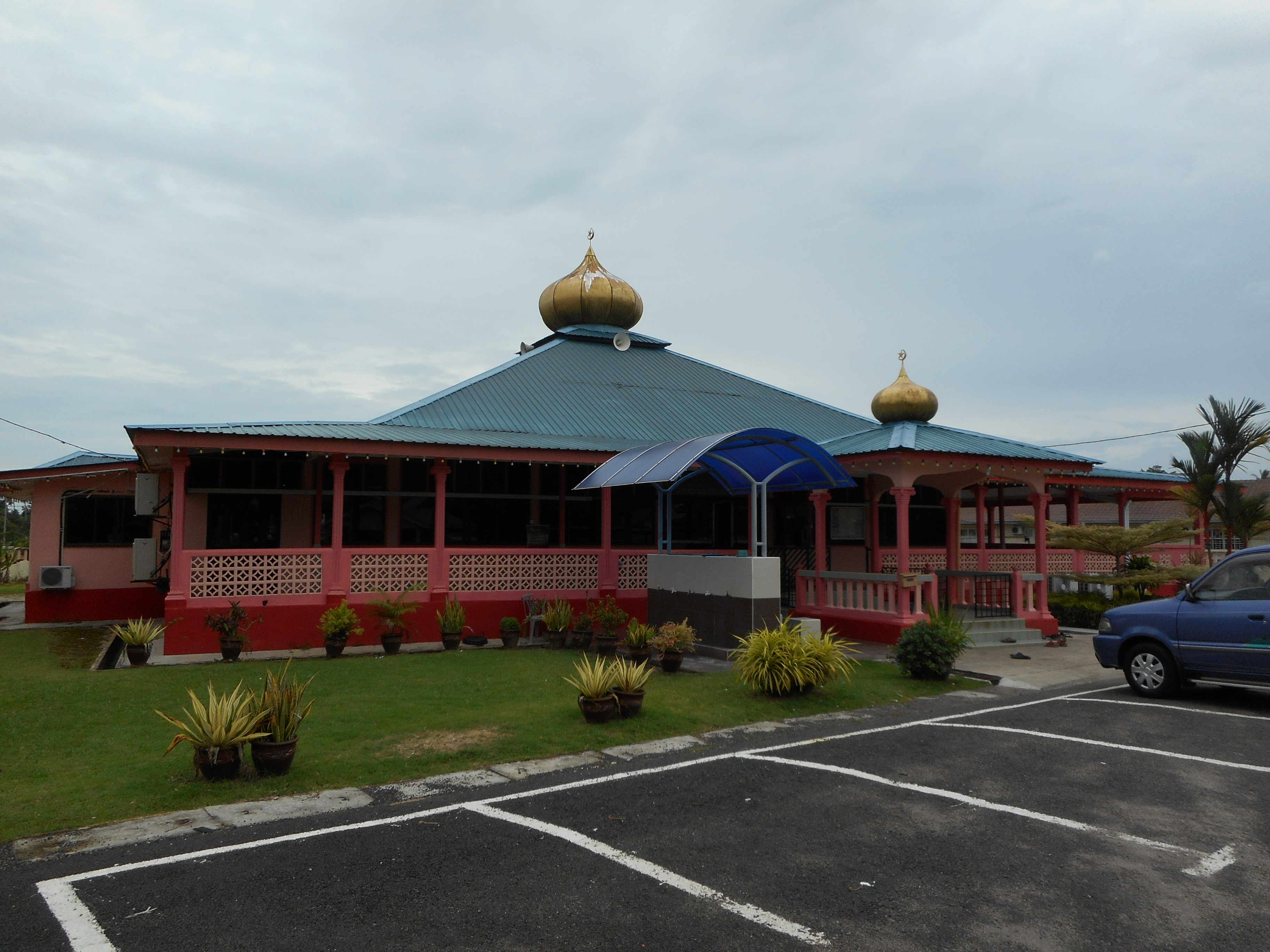 Ar-Raudah Jamek Mosque, Tanjung Sedili, Kota Tinggi, Johor, Malaysia